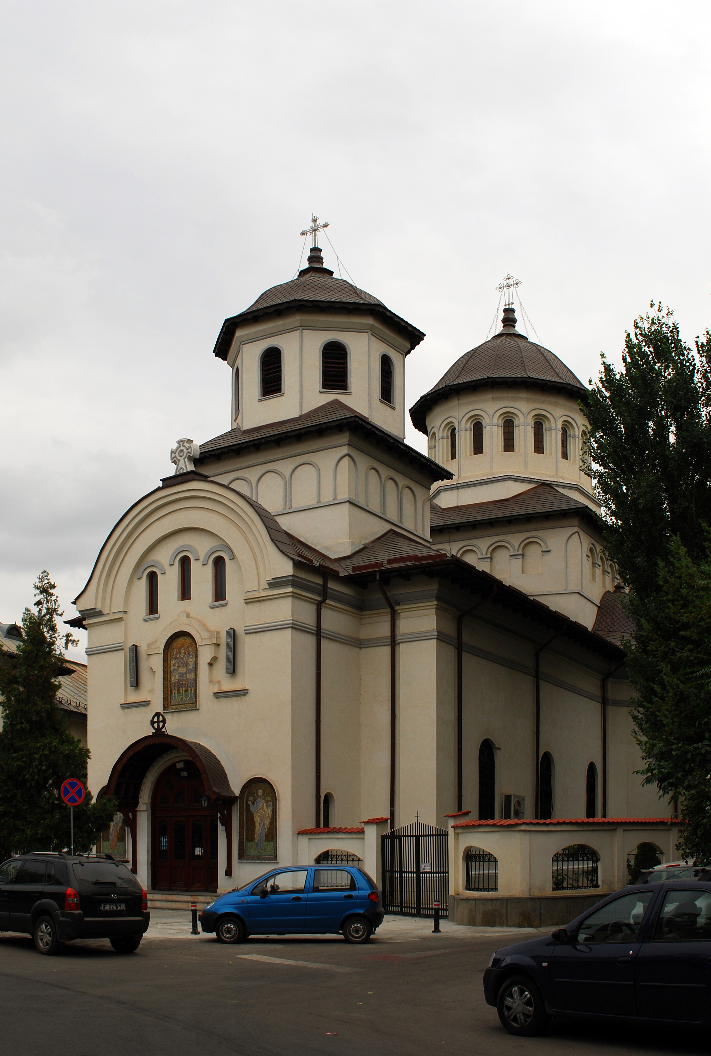 Cărămidarii de Jos church in Bucharest, RomaniaRomână: Biserica "Sf. Mare Mucenic Gheorghe, Sf. Dimitrie" (Cărămidarii de Jos) din Bucureşti, România 01